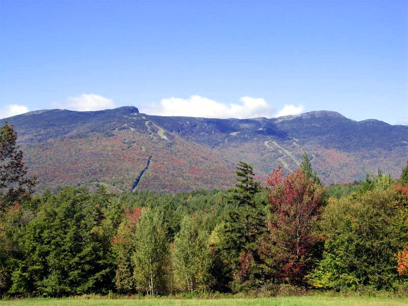 Description: Photograph of Mount Mansfield Source: Photograph taken by Jared C. Benedict on 26 September 2004. Full resolution original available at: Copyright: © Jared C. Benedict. Category:Stowe, Vermont